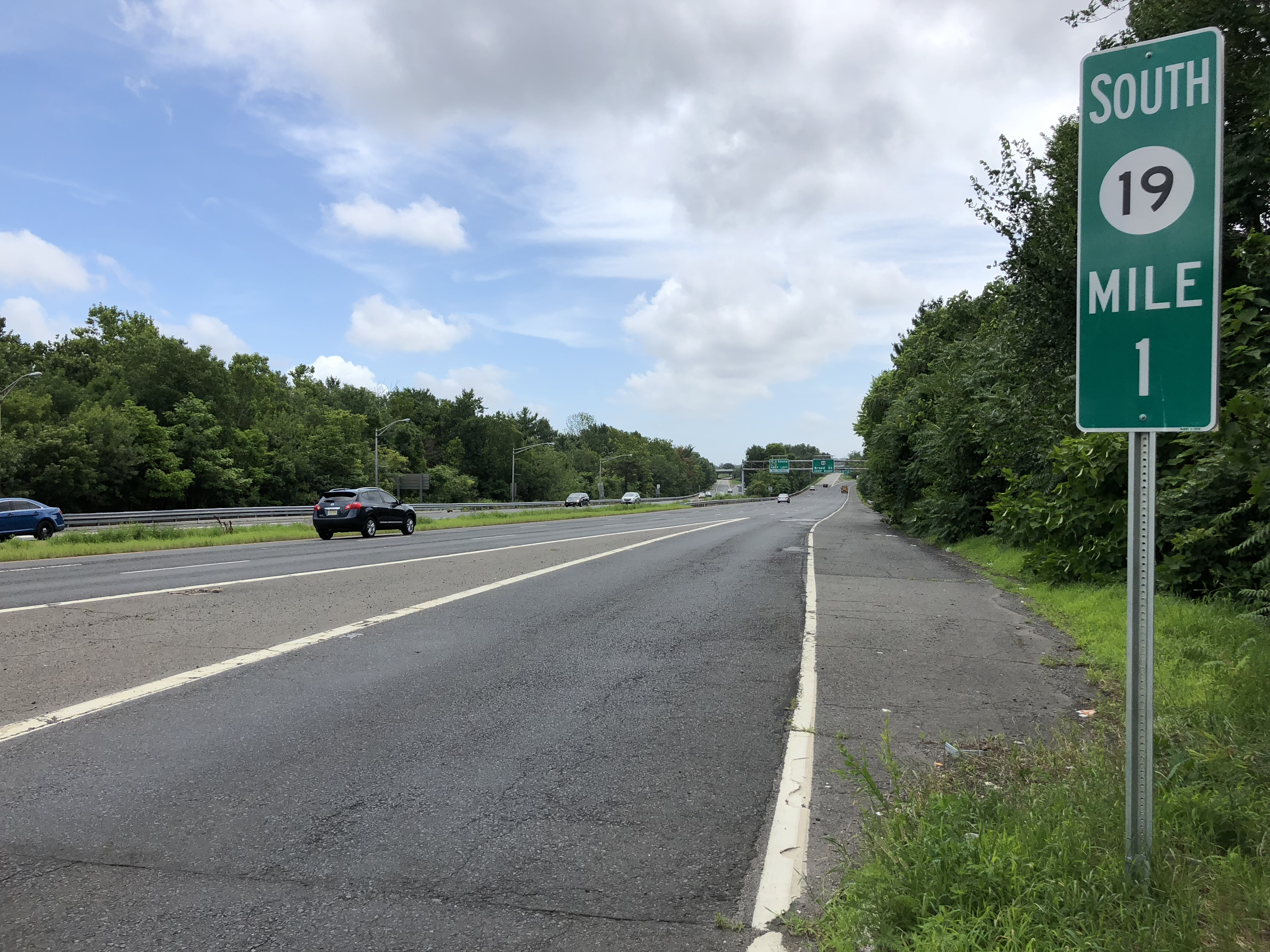 View south along New Jersey State Route 19 just north of the exit for the Garden State Parkway SOUTH in Clifton, Passaic County, New Jersey